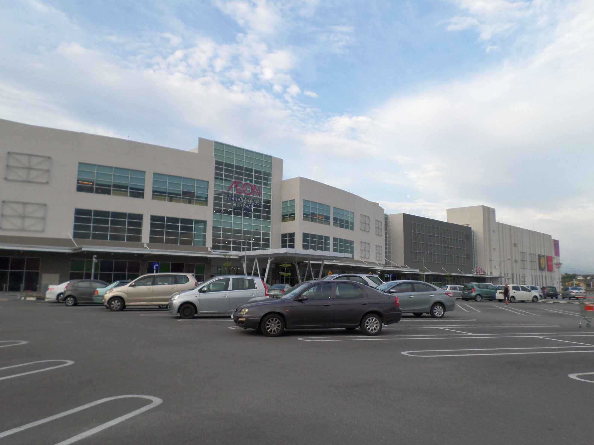 AEON Midtown Falim, Ipoh, Kinta, Perak, Malaysia